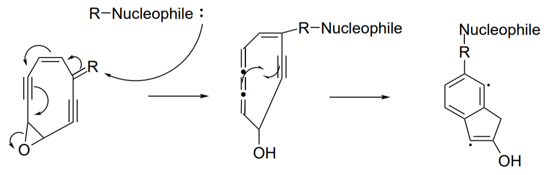 This diagram demonstrates the movement of electrons in Myers-Saito cyclization via arrow-pushing in a generic enediyne molecule.